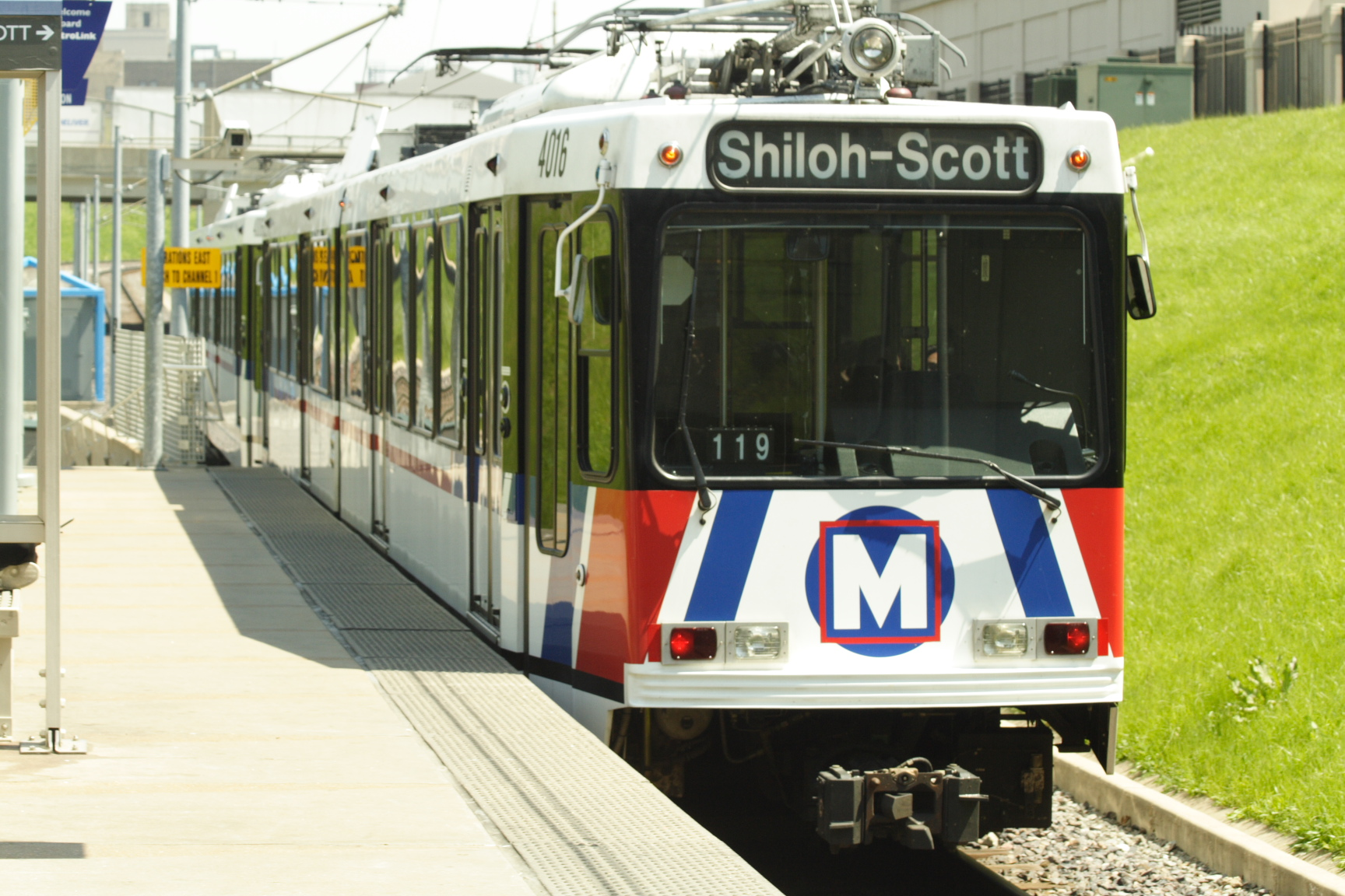 Light Rail, St. Louis, Missouri